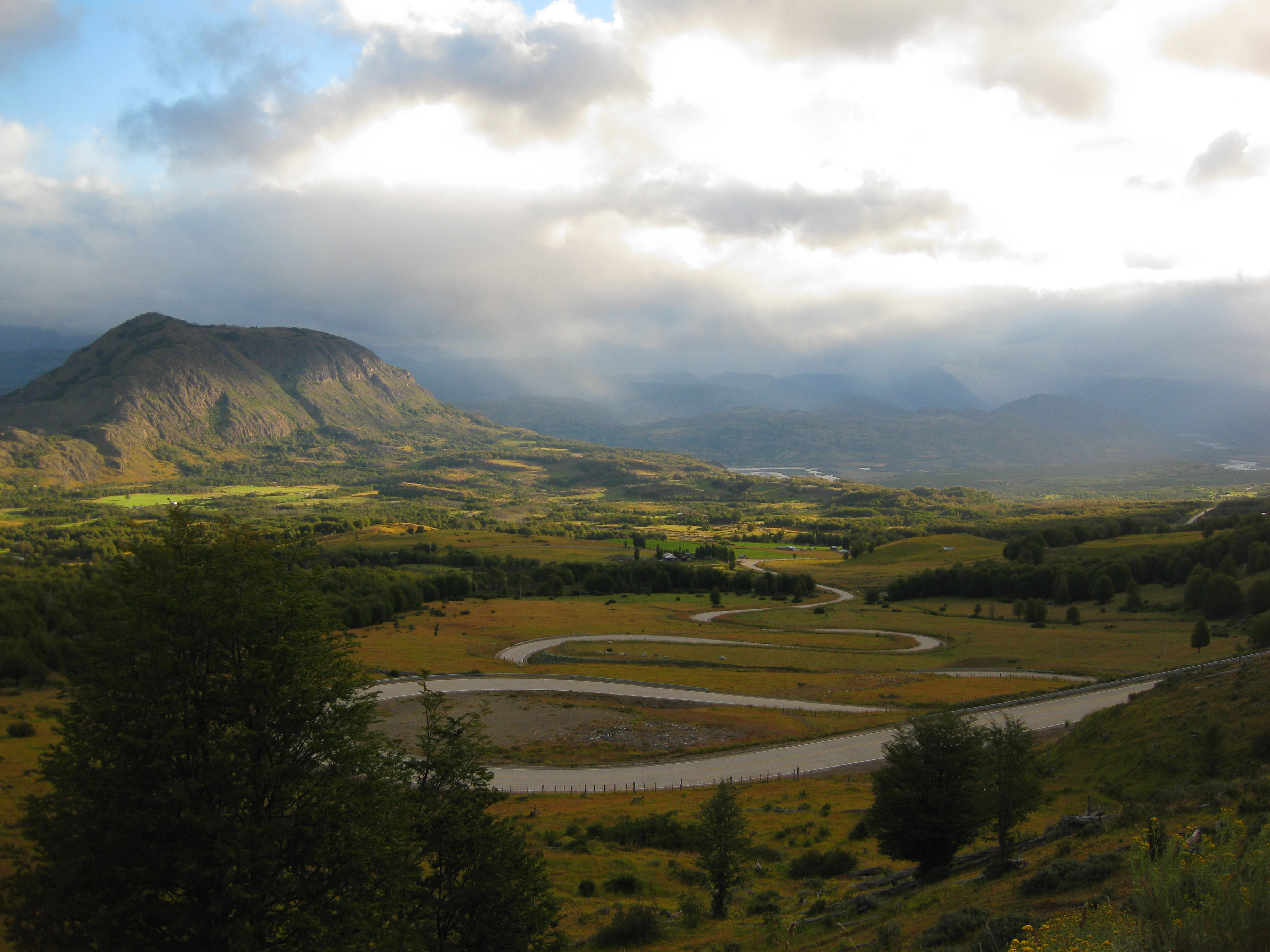 This is the Austral Road in Chile at Villa Cerro Castillo and towards Coihaique.